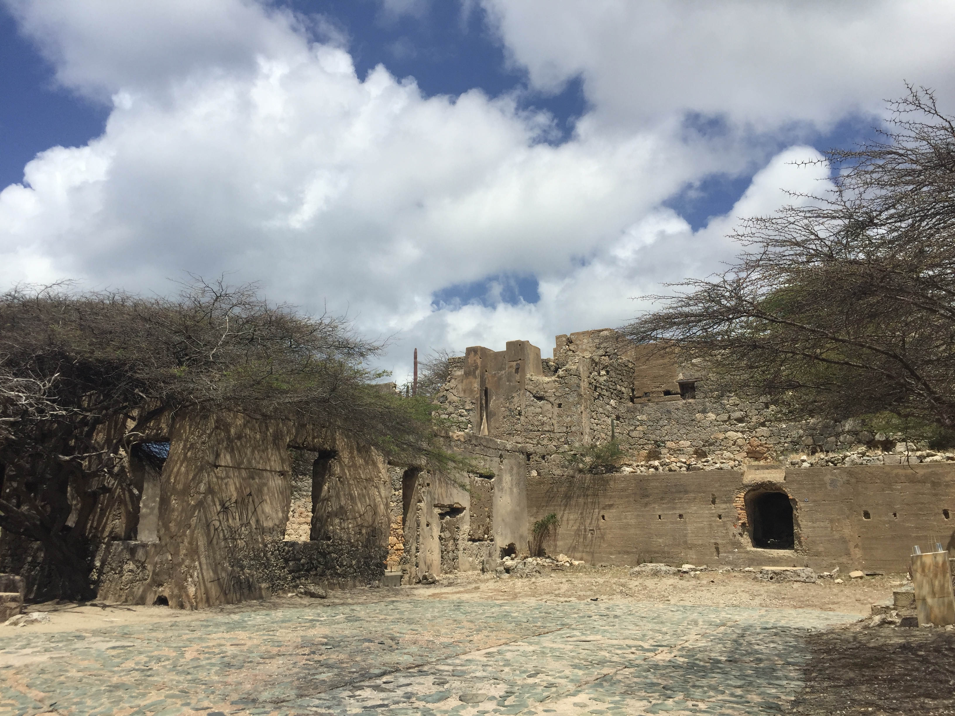 Balashi gold mine ruins, Aruba